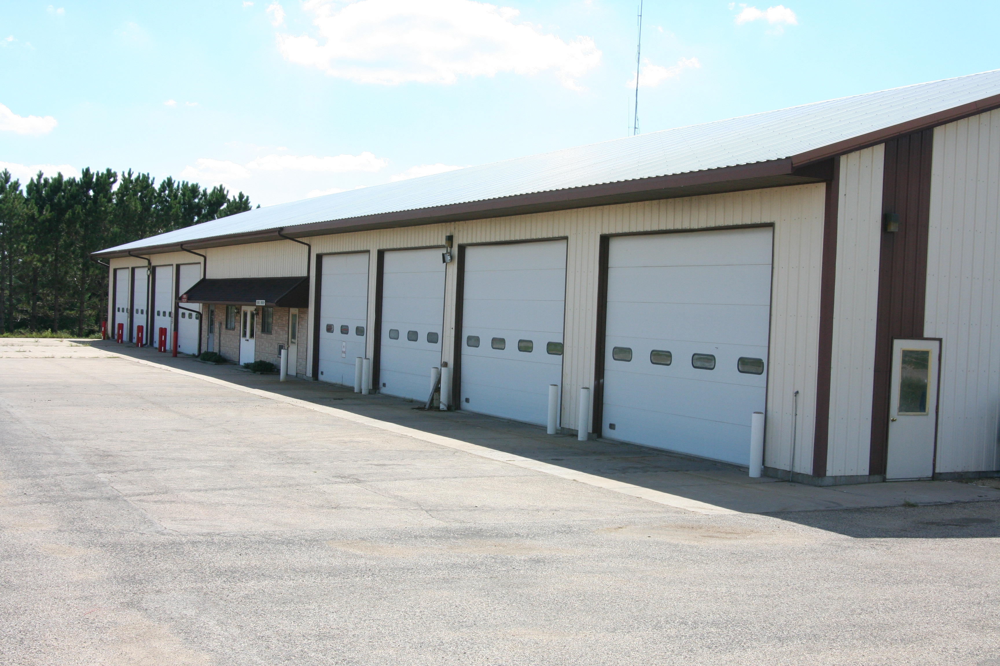 The Seward Fire Department and Township building located in Seward, Illinois, USA.